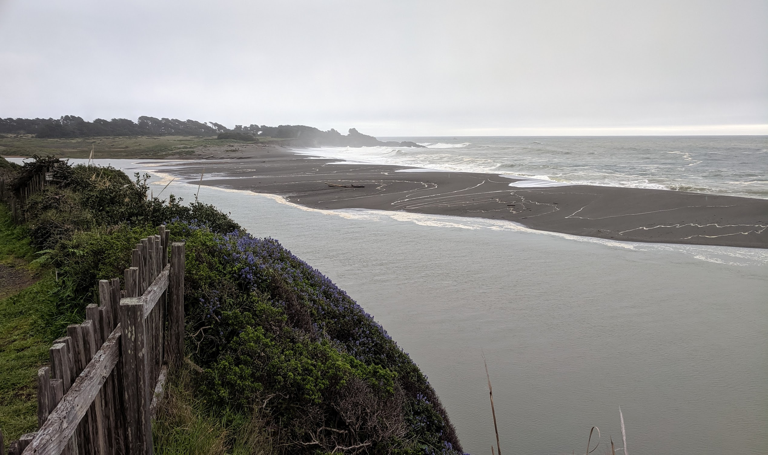 View from behind Trink's Cafe in Gualala of the mouth of the Gualala River, where the river crosses a sandbar extending from Gualala Point Regional Park to enter the Pacific